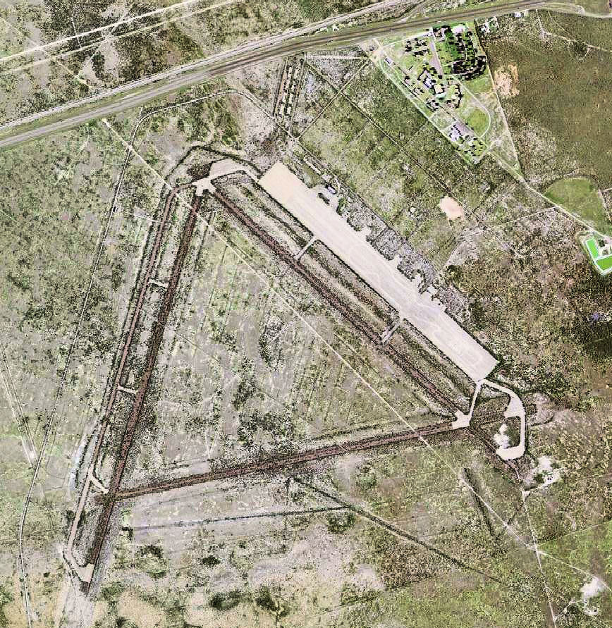 USGS digital orthophoto of Pyote Air Force Base in Texas